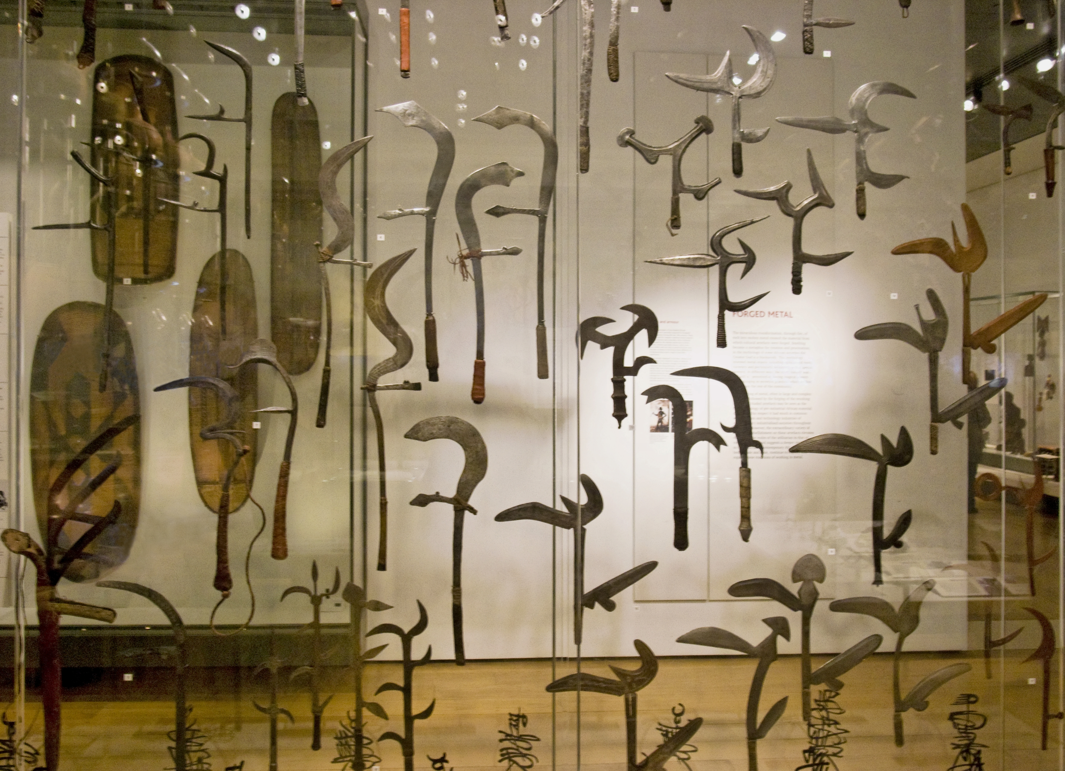 African throwing knives. A collection in the British Museum, London, England.